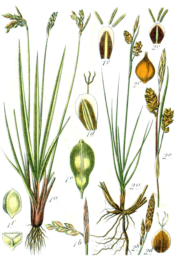 1. Carex ornithopoda Willd. 2. Carex liparocarpos subsp. liparocarpos, syn. Carex nitida Host, nom. ill. Original Caption 1. Krallen-Segge, Carex ornithopoda 2. Glanz-Segge, C. nitida